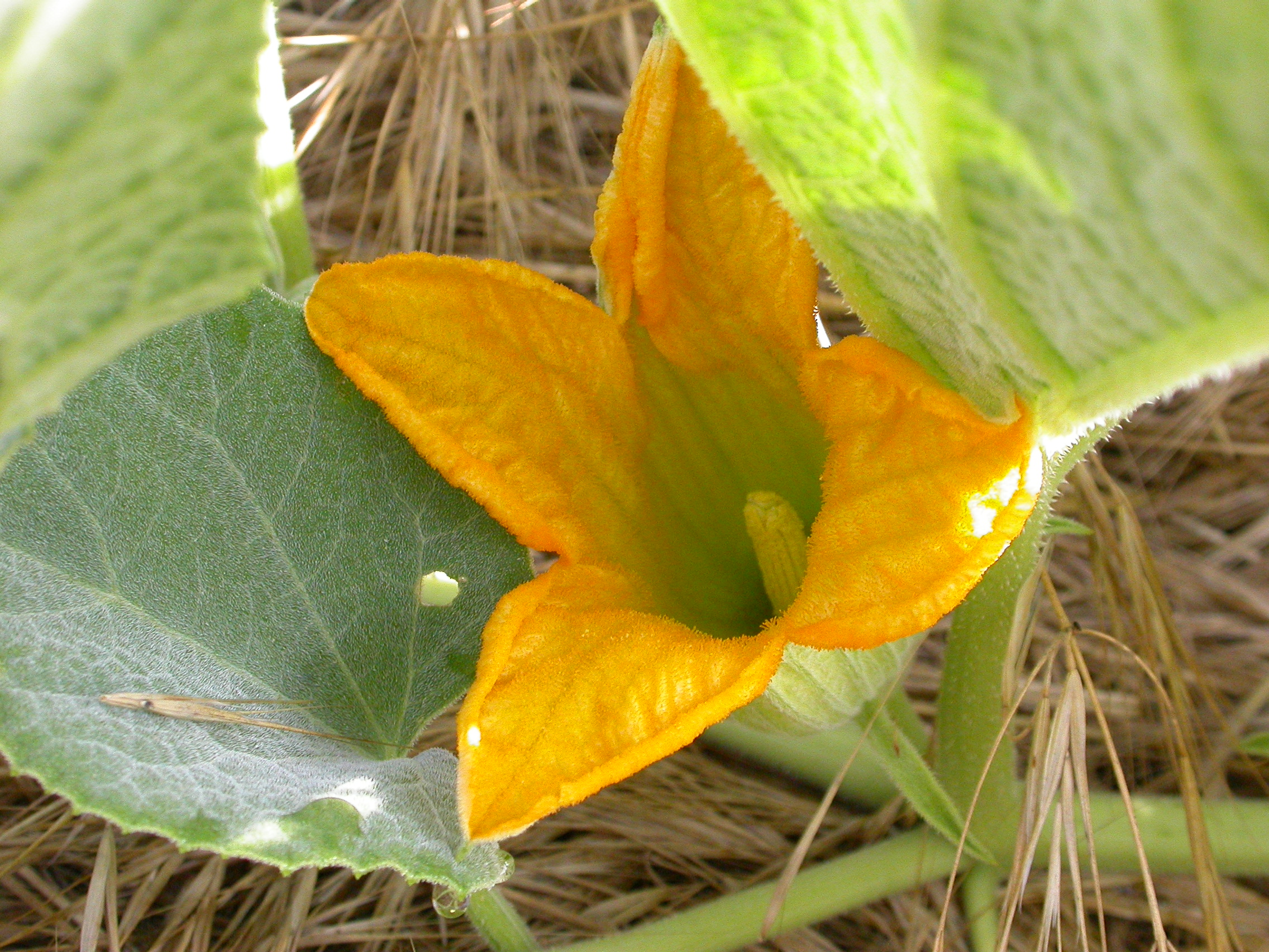 Photographed in Voorhis Ecological Reserve near Pomona, CA, USA.